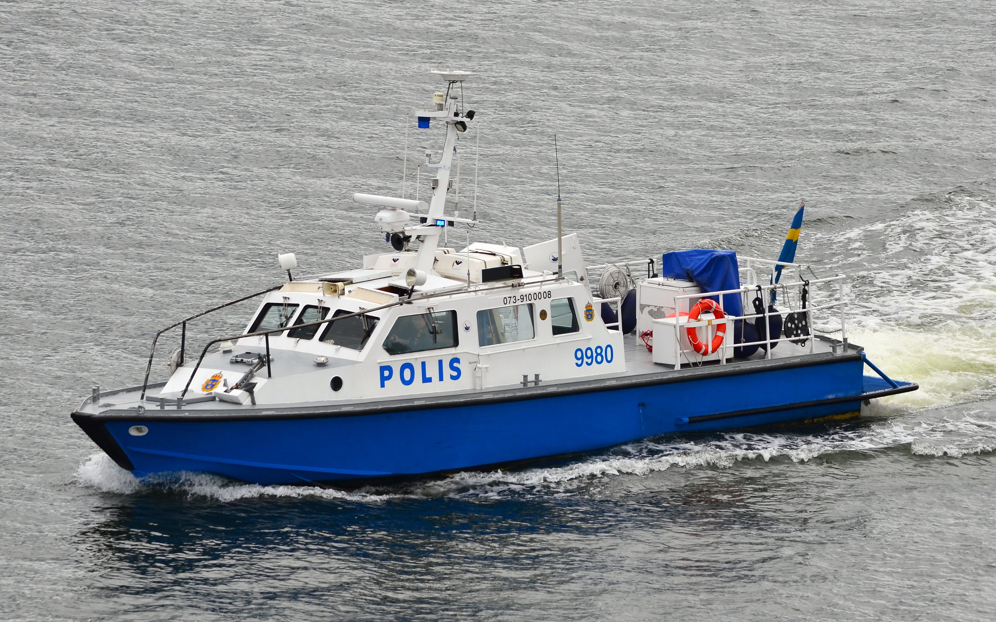 A Swedish police boat